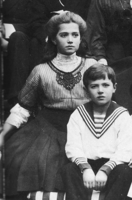 Grand Duchess Maria Nikolaevna of Russia and Tsarevich of Russia Alexei Nikolaievich at Wolfsgarten, Hesse.